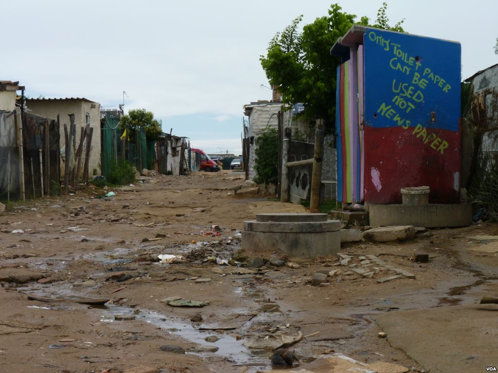 WASSUP activists say the government should do more to maintain the community's environment in Diepsloot, South Africa, December 2012. (VOA S. Honorine)